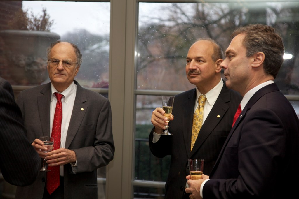 Thomas J. Sargent, Bruce Beutler, Jan Björklund Ambassador and Mrs. Brzezinski hosted a lunch for the U.S. Nobel laureates of 2011. Special guests in attendance were Swedish Vice-Prime Minister and Minister for Education and Research Jan Björklund and U.S. Secretary of Energy Steven Chu.